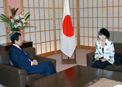 Tetsuko Kuroyanagi, Goodwill Ambassador of the United Nations Childrens' Fund, talked with Tarō Asō, Minister for Foreign Affairs, at the Ministry of Foreign Affairs in Tōkyō Metropolis on August 25, 2006.